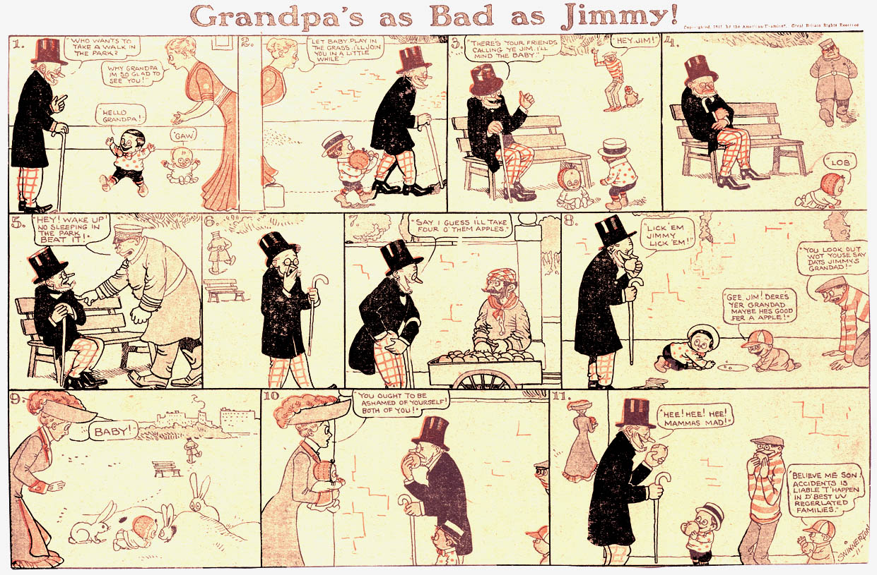 Little Jimmy Sunday comics page